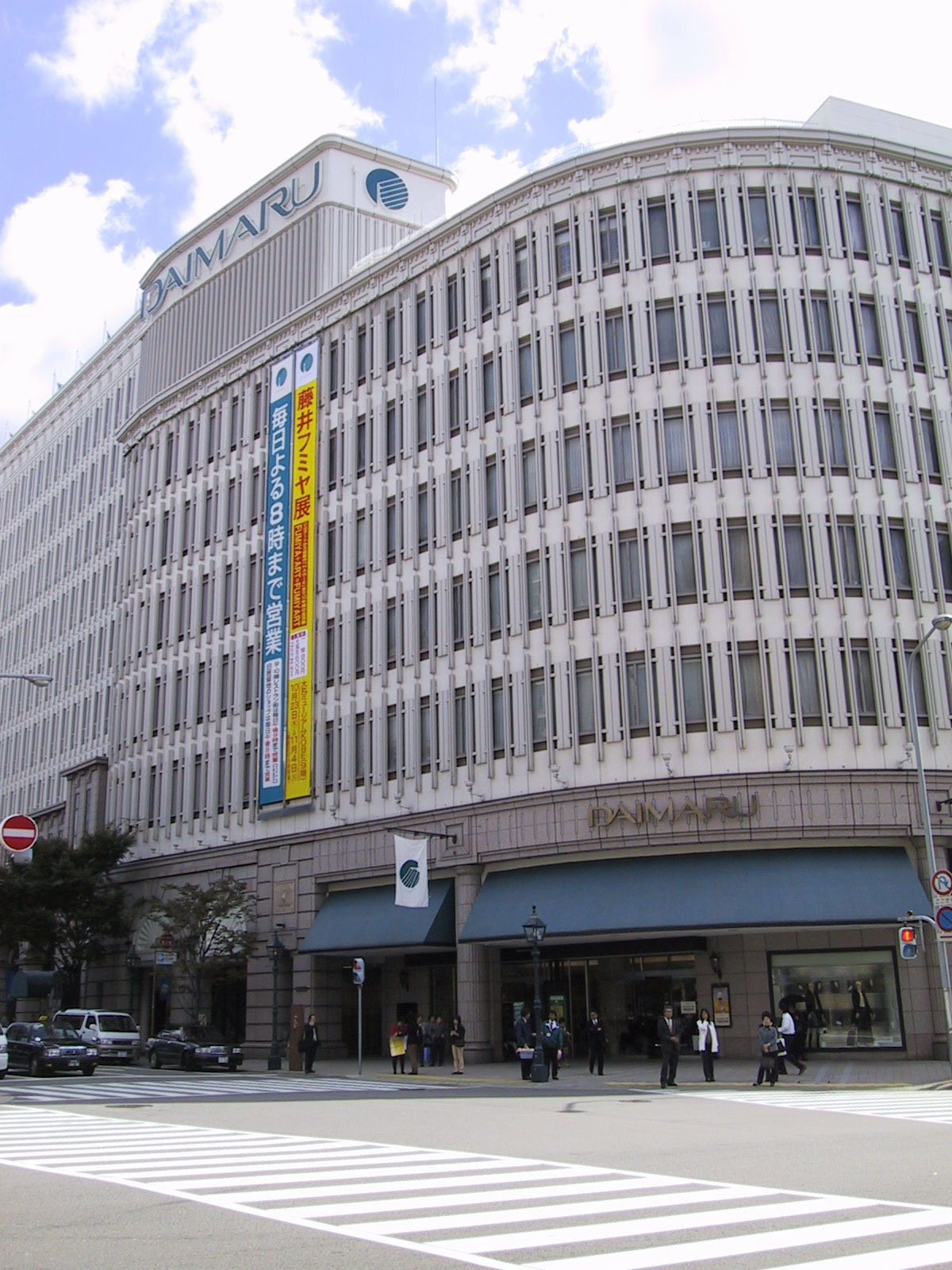 Motomachi Daimaru Deparmentstore in Motomachi, Kobe